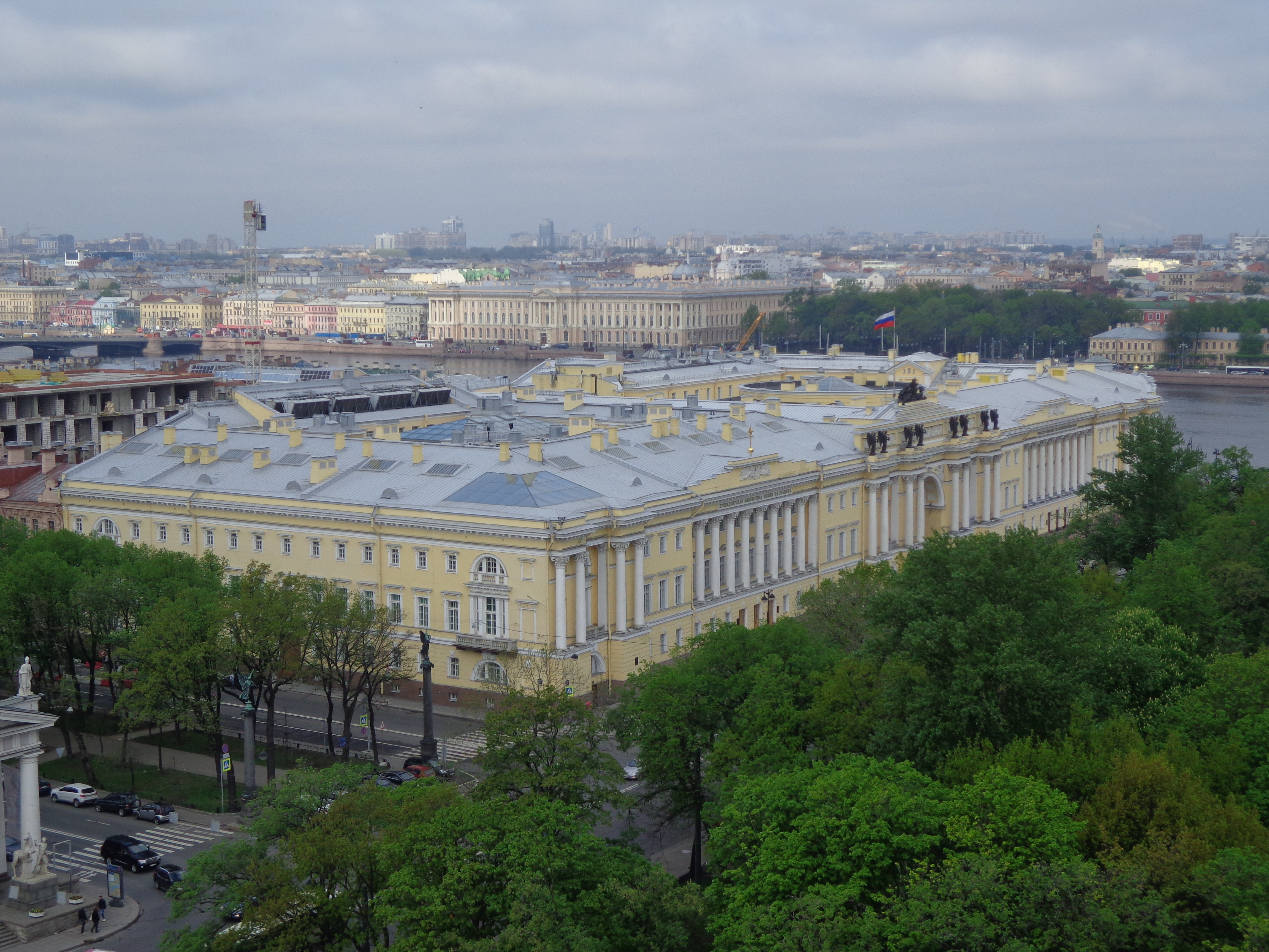 Senate and Sinod from Saint Isaac's Cathedral dome, Saint-Petersburg